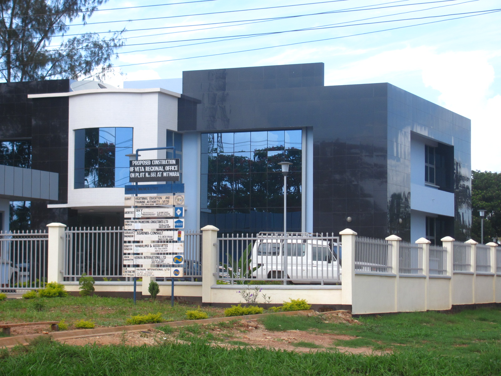 VETA provides vocational training throughout Tanzania. These offices will deal with VETA establishments throughout the south eastern zone.